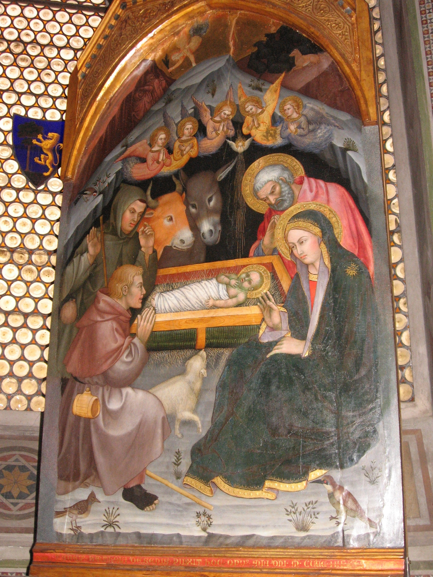 The Adoration of the Shepherds